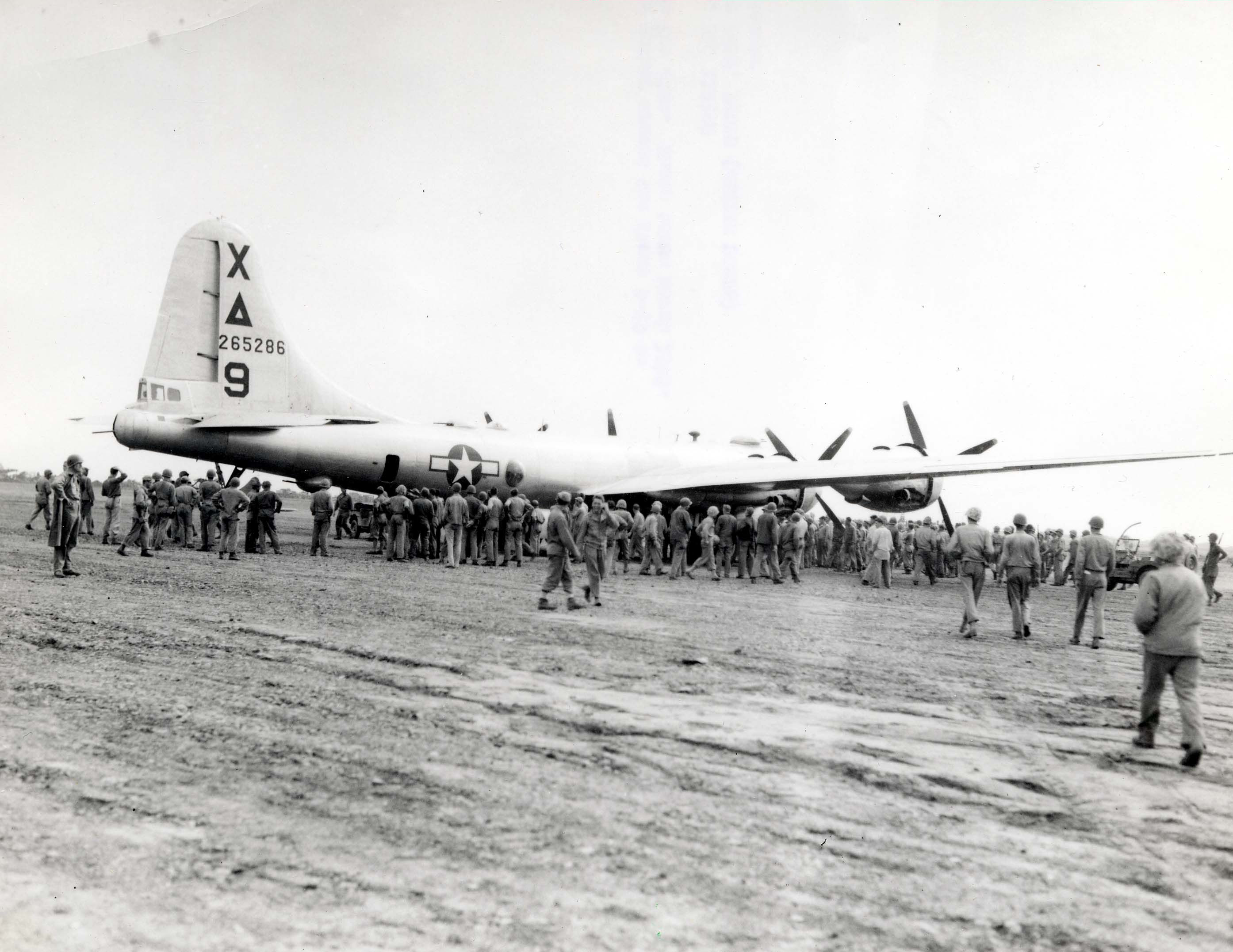 "Dinah Might" Boeing B-29 Superfortress Serial number 42-65286 1st Bomb Squadron, 9th Bomb Group, 20th Air Force This photo was taken on March 4,1945 after "Dinah Might" became the first B-29 to make an emergency landing on Iwo Jima, while the fighting was still going on. She was repaired, refueled and flown out. (U.S. Air Force photo)